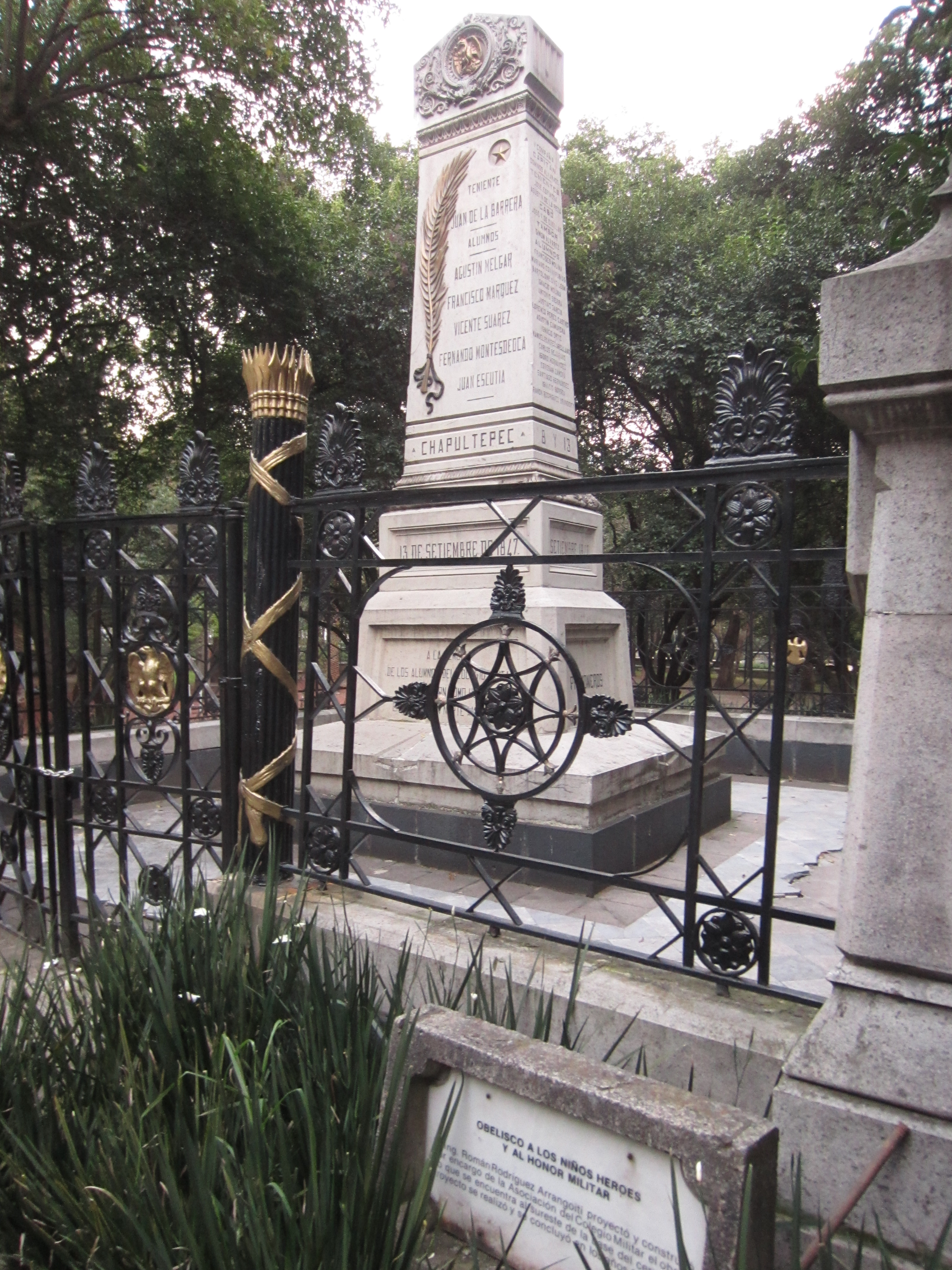 Mexico City (2018)